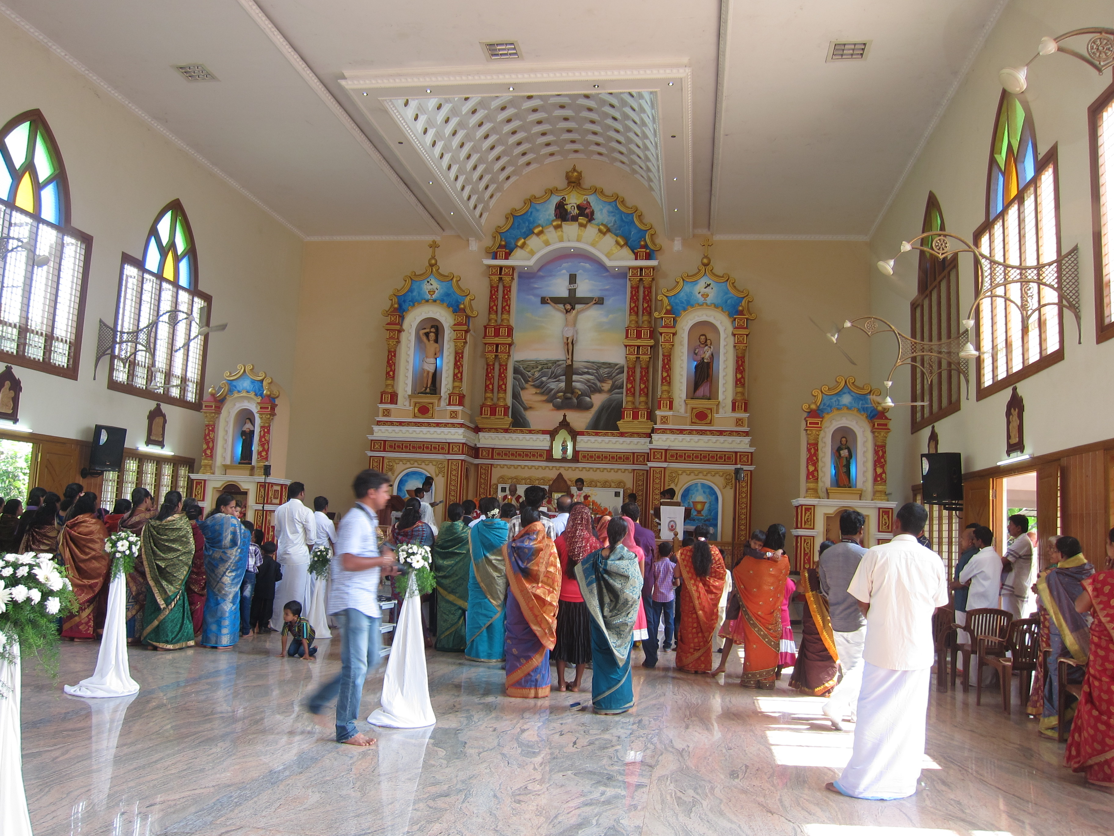 St: Mary's Church, Parekkattukara, Kodakara Irinjalakuda Diocese Syro-Malabar Catholic Church സെന്റ് മേരീസ് ചർച്ച്, പാറേക്കാട്ടുകര, കൊടകര ഇരിങ്ങാലക്കുട രൂപത സീറോ-മലബാർ കത്തോലിക്ക സഭ